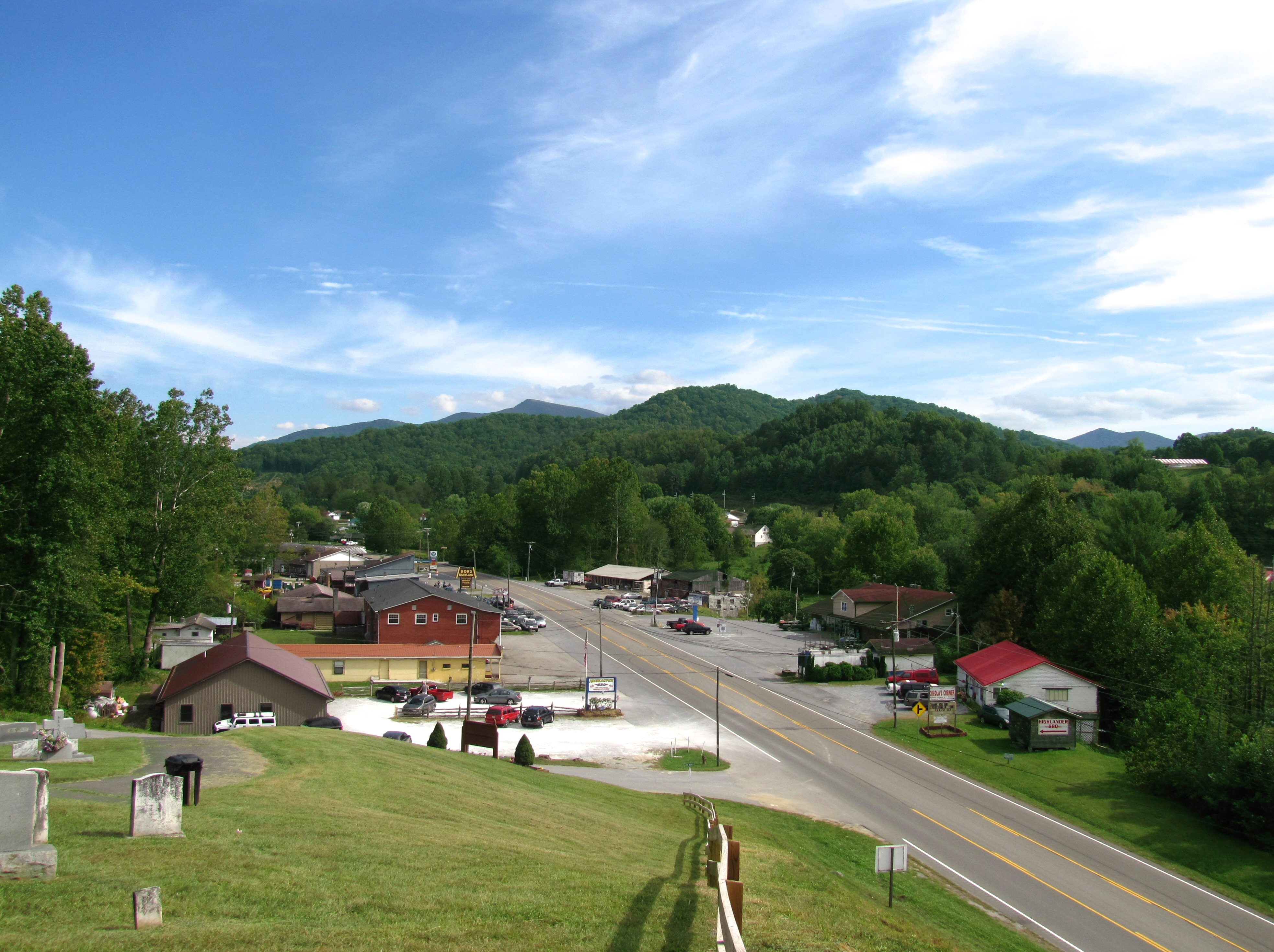 U.S. Route 19E in Roan Mountain, Tennessee, United States.